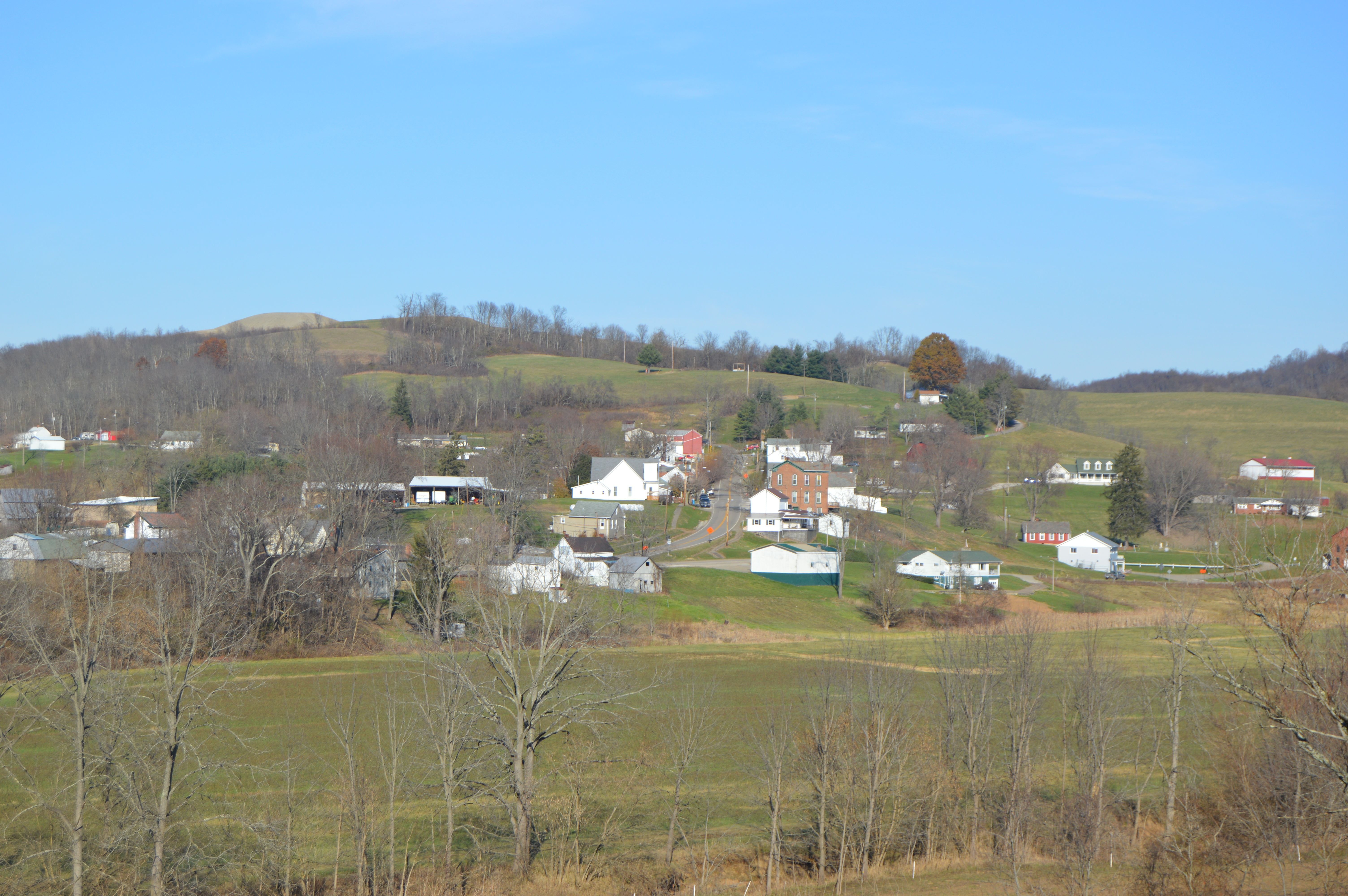 Overview of the village of Batesville, Ohio, United States, as seen from State Route 513 to the southwest. The central road is Main Pike Street (State Route 513), while Beaver Street (State Route 147) can be seen breaking off on the village's near side.